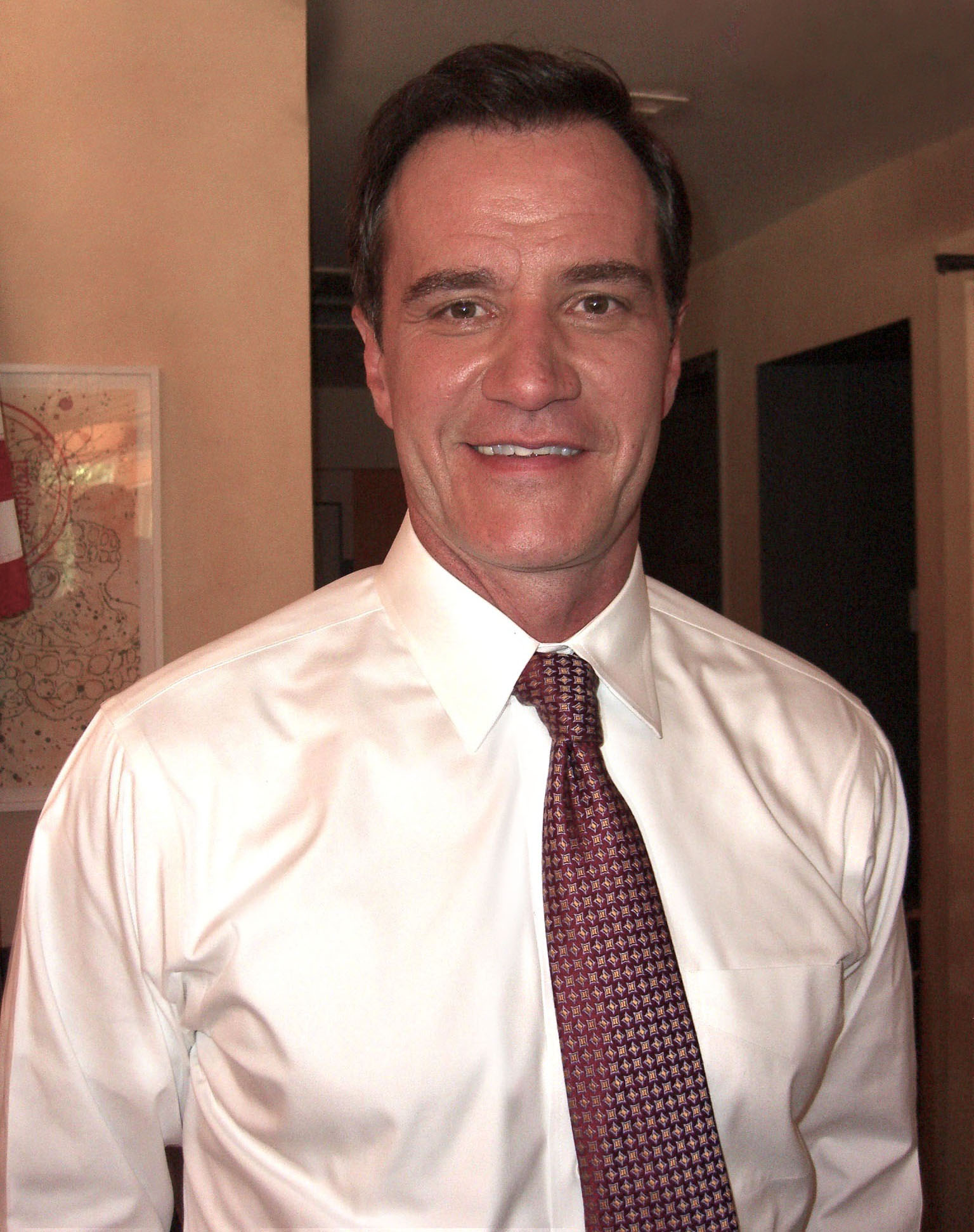 Actor Tim DeKay during the June 7, 2011 production of "On the Fence", the ninth episode of the third season of the American TV series White Collar at 10 Downing, a restaurant in Manhattan's West Village. Photographed by Luigi Novi. This photo is not in the public domain. It may, however, be used, modified and published for any purpose, free of charge, only if the photographer is properly credited, either by linking the photograph to this page, or with an easily visible credit to the photographer placed near the photo in each instance in which it is used. (See licensing information below.) Publication of this photo without this proper attribution constitutes copyright infringement. If you have any questions, you can contact me on my Wikipedia Talk Page.